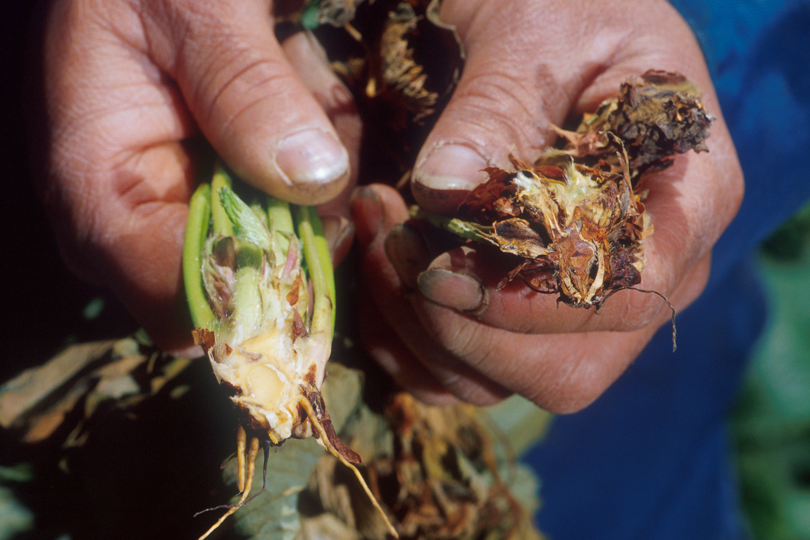 The healthy looking strawberry plant was grown in soil treated with methyl bromide alternatives. The other is from untreated and unfumigated soil and is infested with Verticillium wilt. (Taken from source)